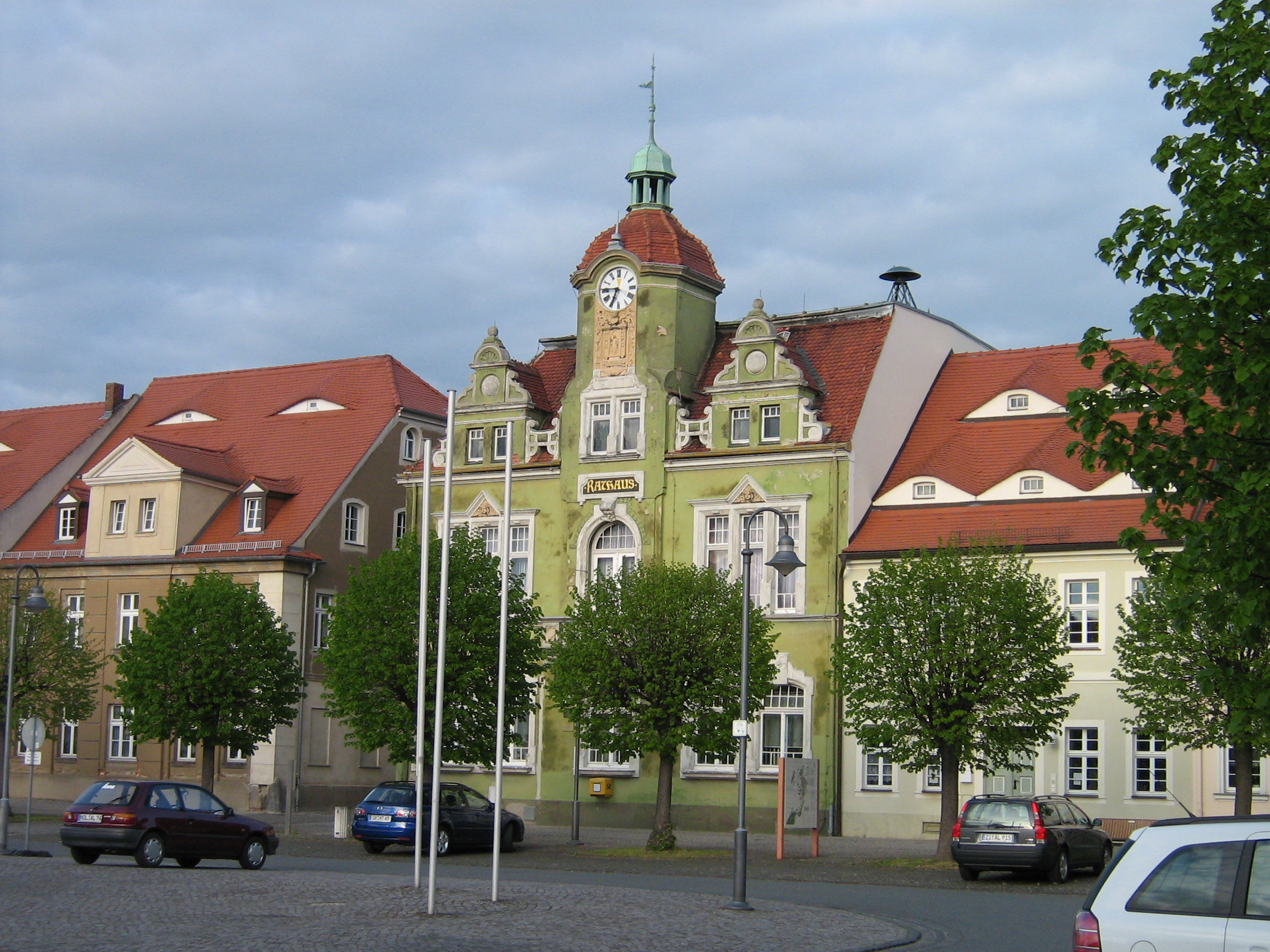 The townhall in Ostritz.